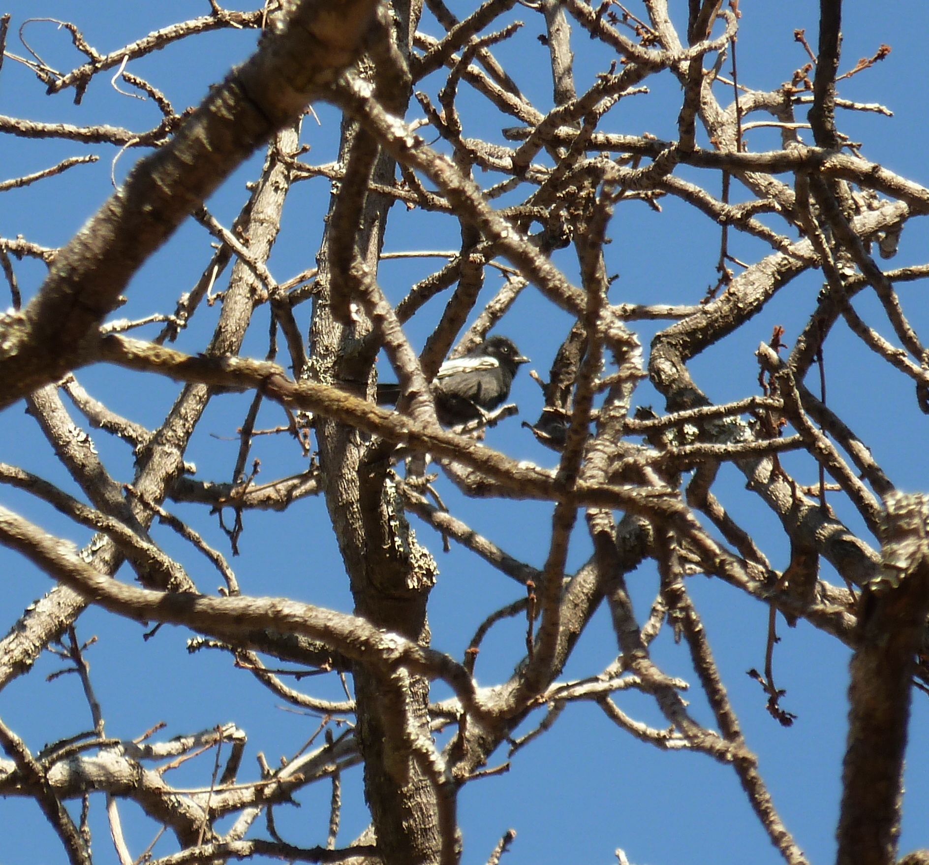 Black tit foraging in leafless canopy of a wild seringa, Waterberg, South Africa